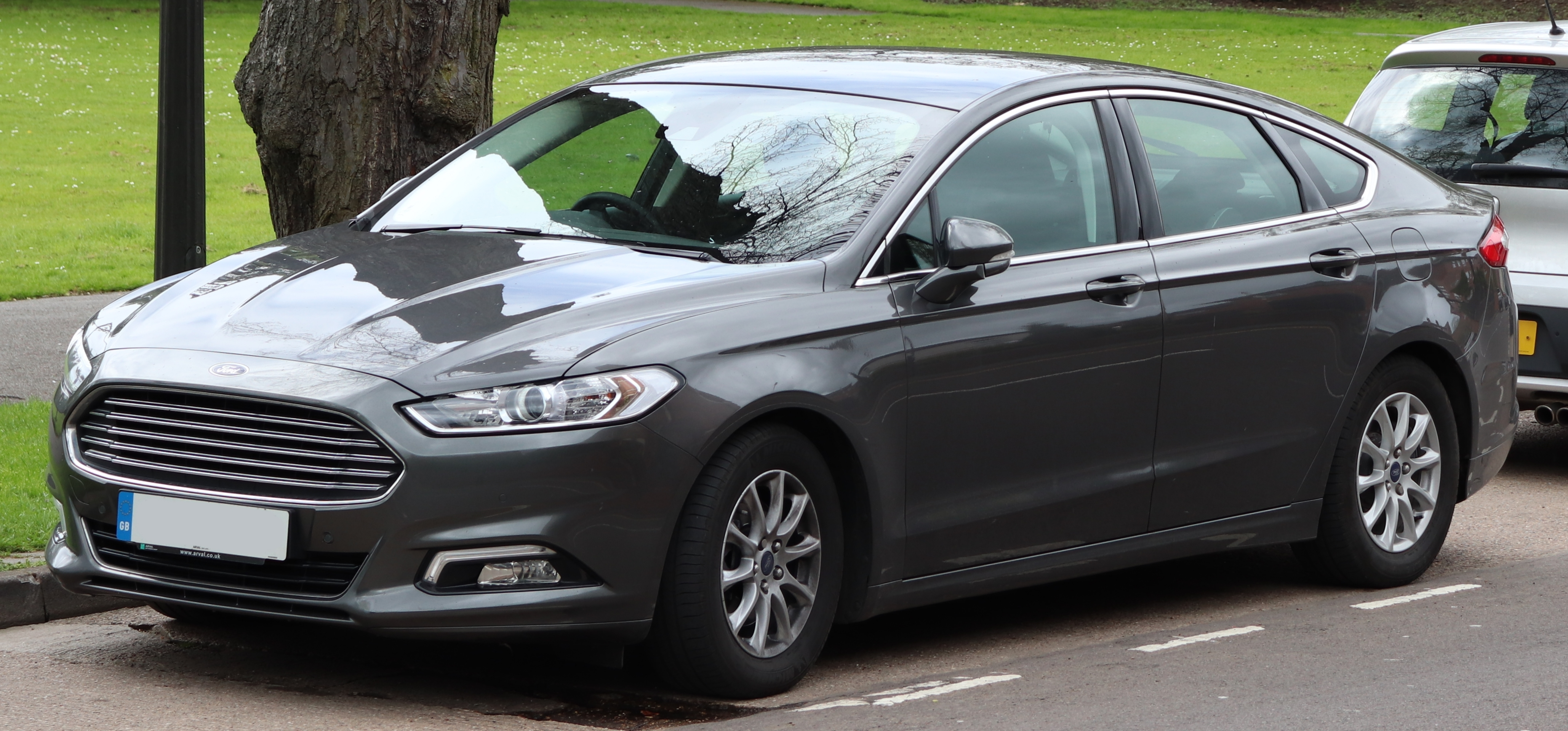 2017 Ford Mondeo Titanium ECOnetic 1.5 Front Taken in Leamington Spa